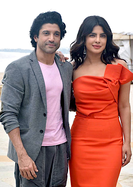 Farhan Akhtar and Priyanka Chopra at The Sky Is Pink promotions